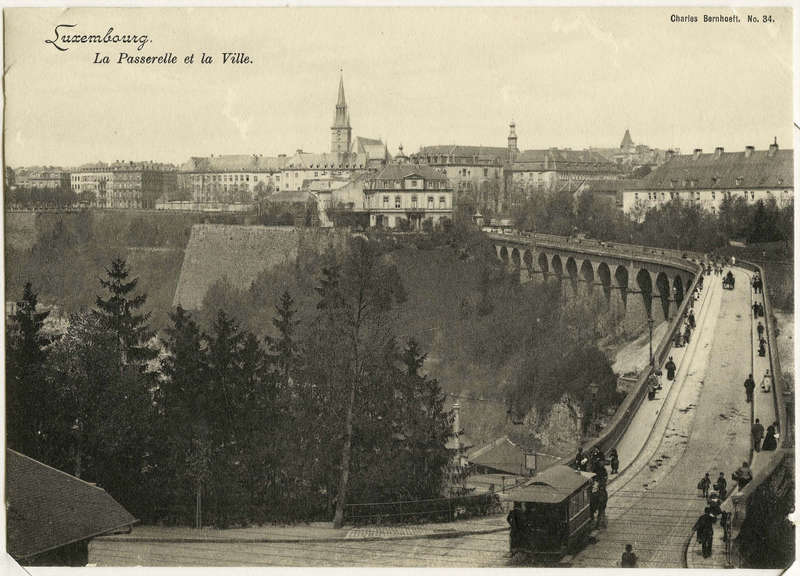 Charles Bernhoeft: Luxembourg: La Passerelle et la Ville.